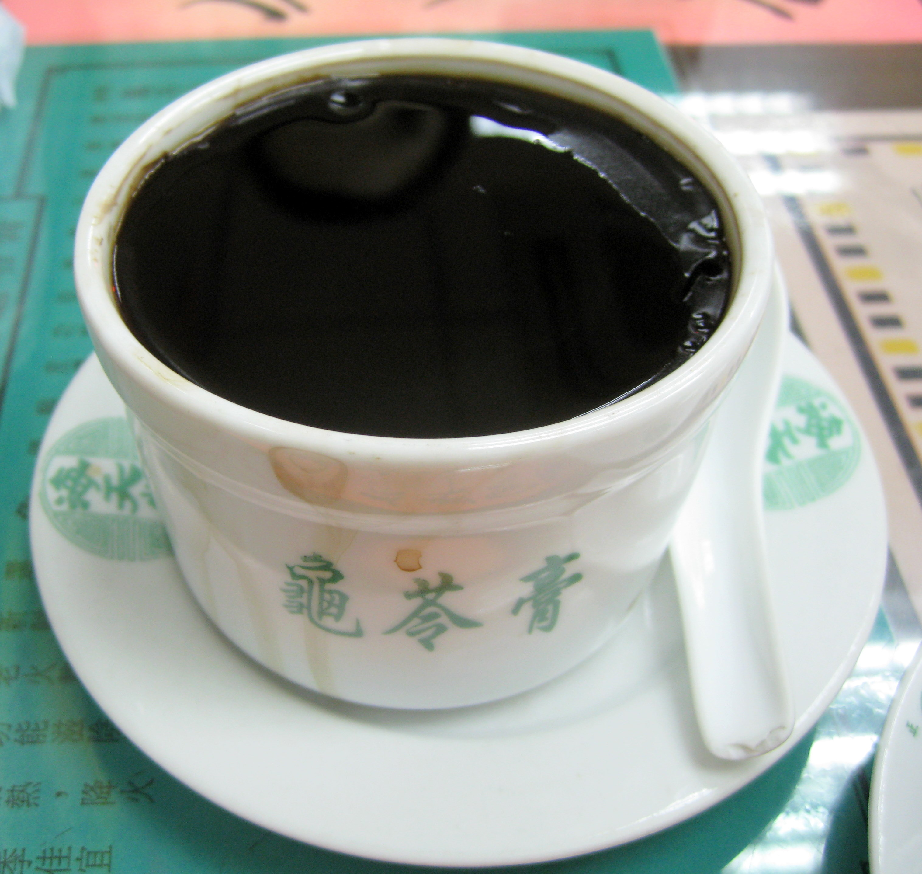 Guilinggao, 龜苓膏 in Hongkong